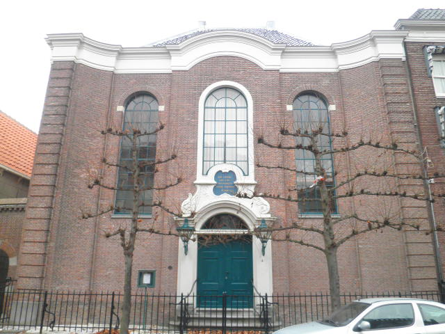 Rijksmonument nummr: 22548. Lutheran Church in Hoorn (North Holland, the Netherlands) at the Ramen.